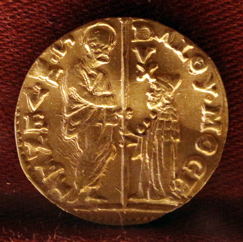 Coins of Venice in the Museo Correr (Venice)